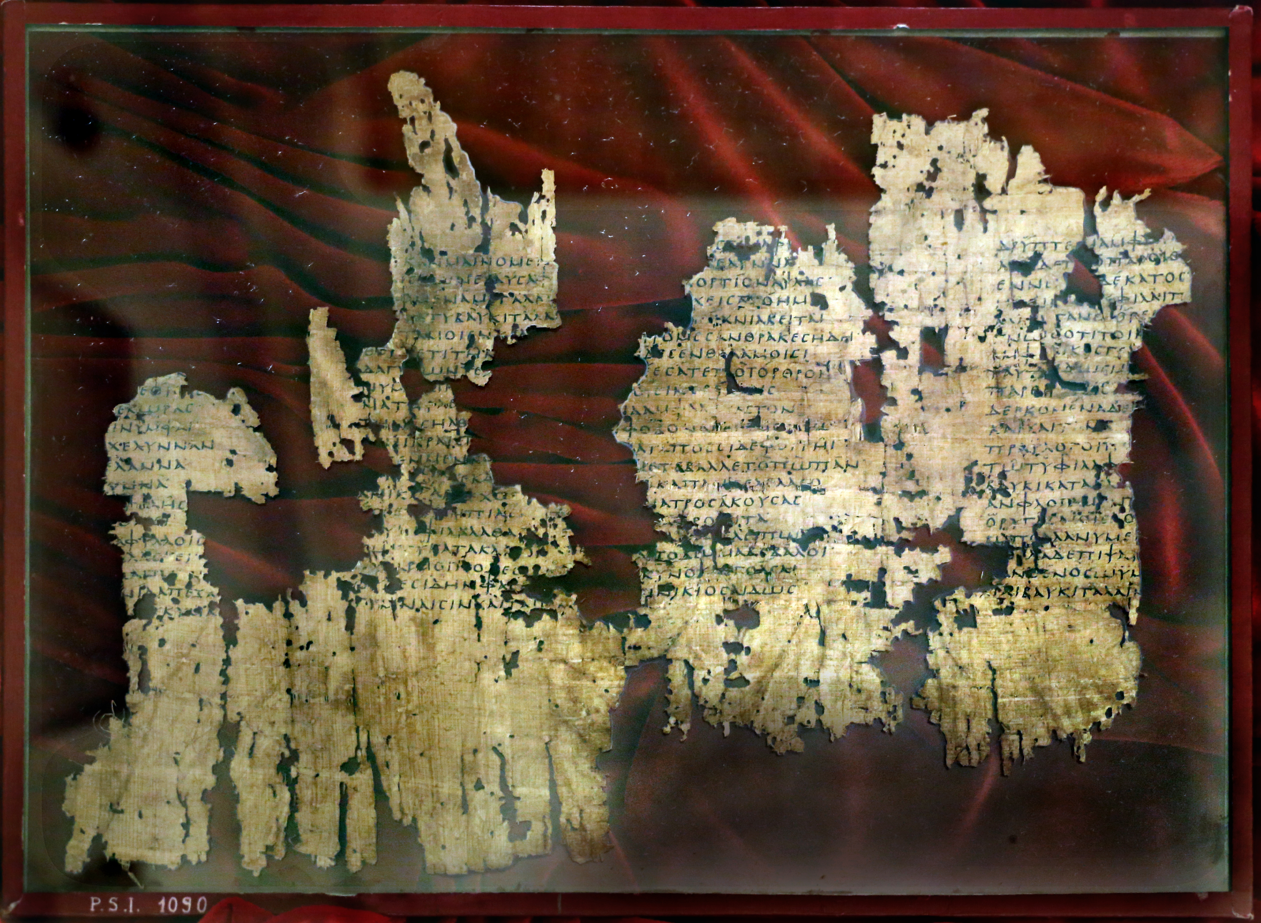 Biblioteca Medicea Laurenziana manuscripts